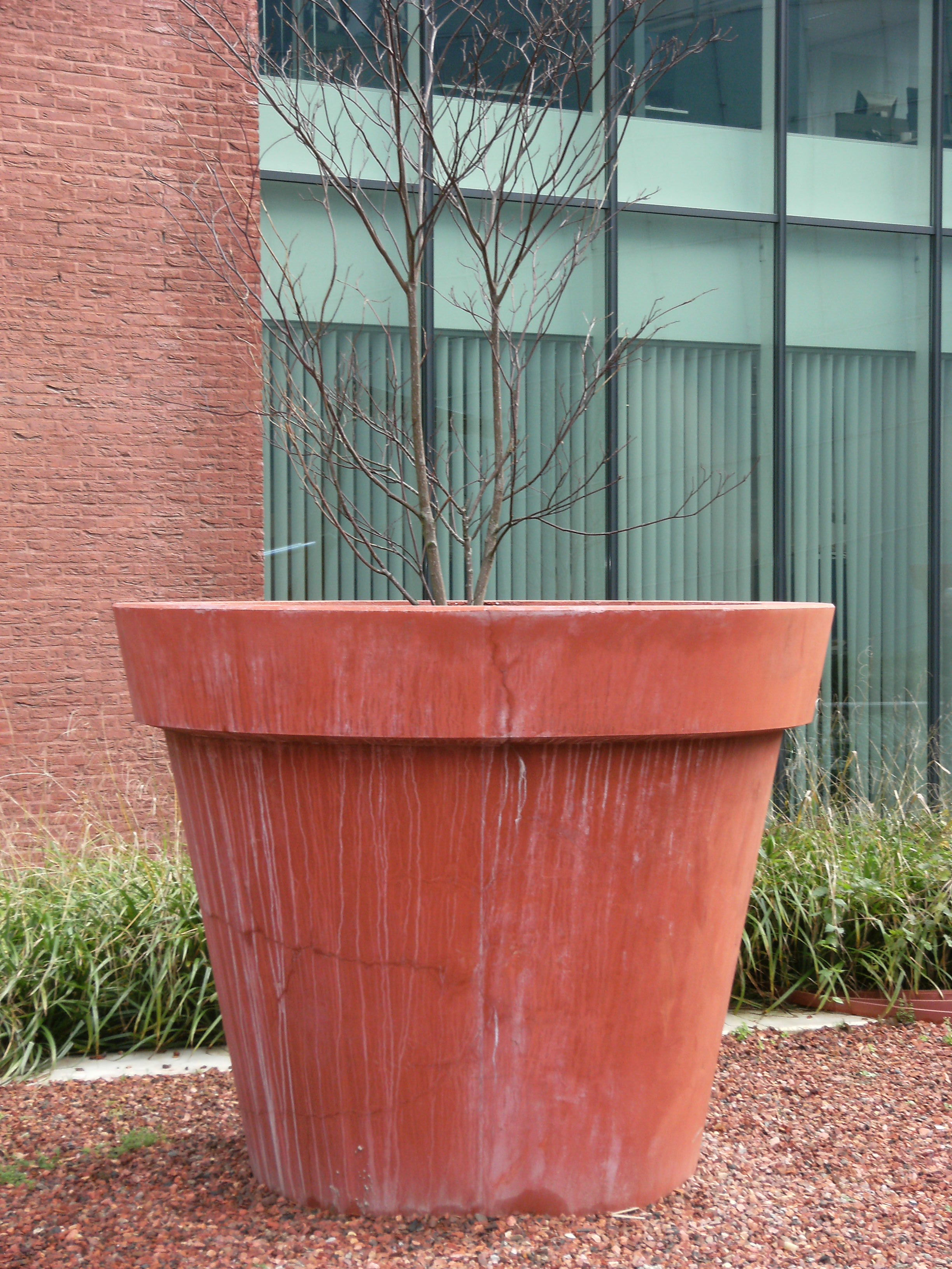 Giant flower pot.